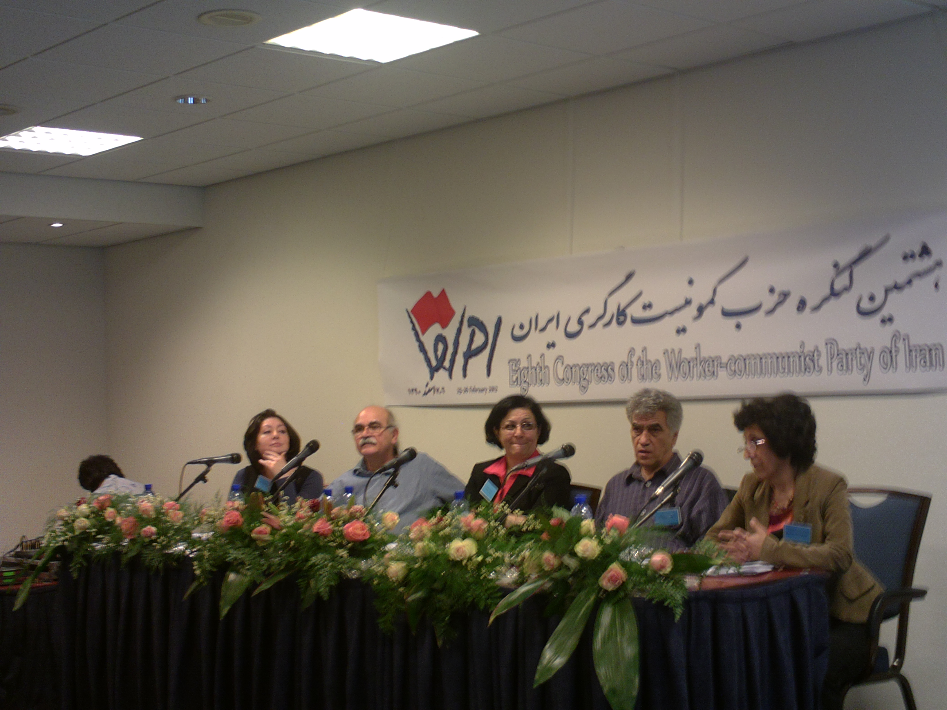 Worker-communist party of Iran 8th congress tribune, 2012. Maryam Namazie, Hamid Taqvaee, Mina Ahadi, Mostafa Saber, Shahla Daneshar